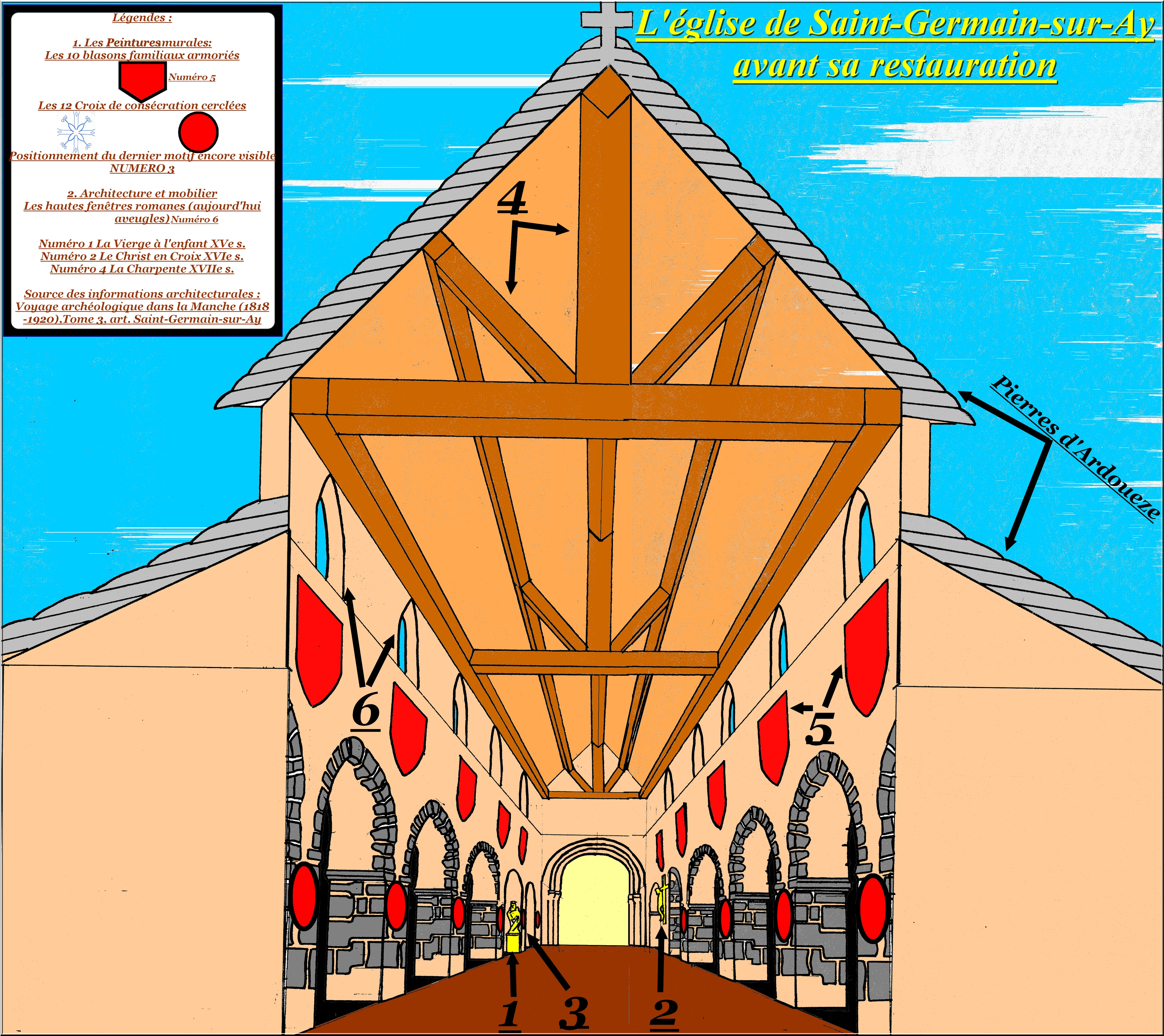 3D view of the church of saint germain sur ay